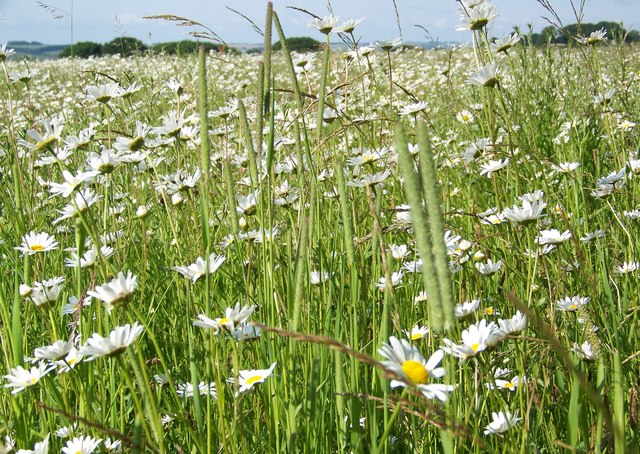 Oxeye Daisy (Leucanthemum vulgare) The oxeye daisy is common in all types of grassland. This field near the Harewarren totally covered with the flowers.